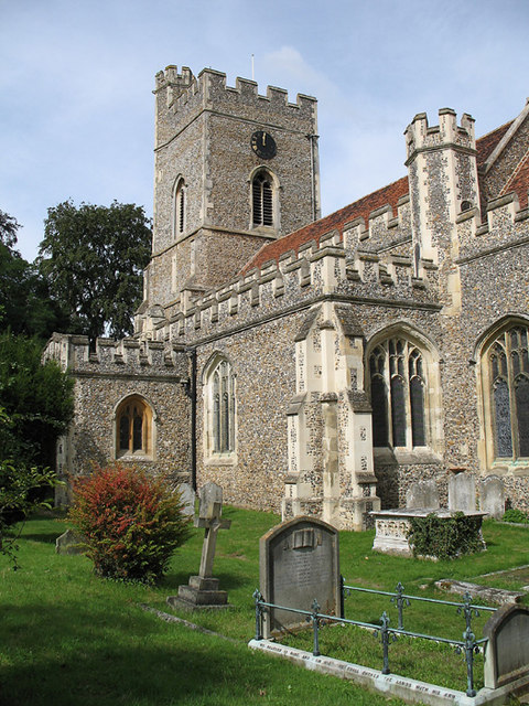 St Andrew and St Mary. Watton at Stone's Church, located on a hill to the south of the village. A fine example of flint building.